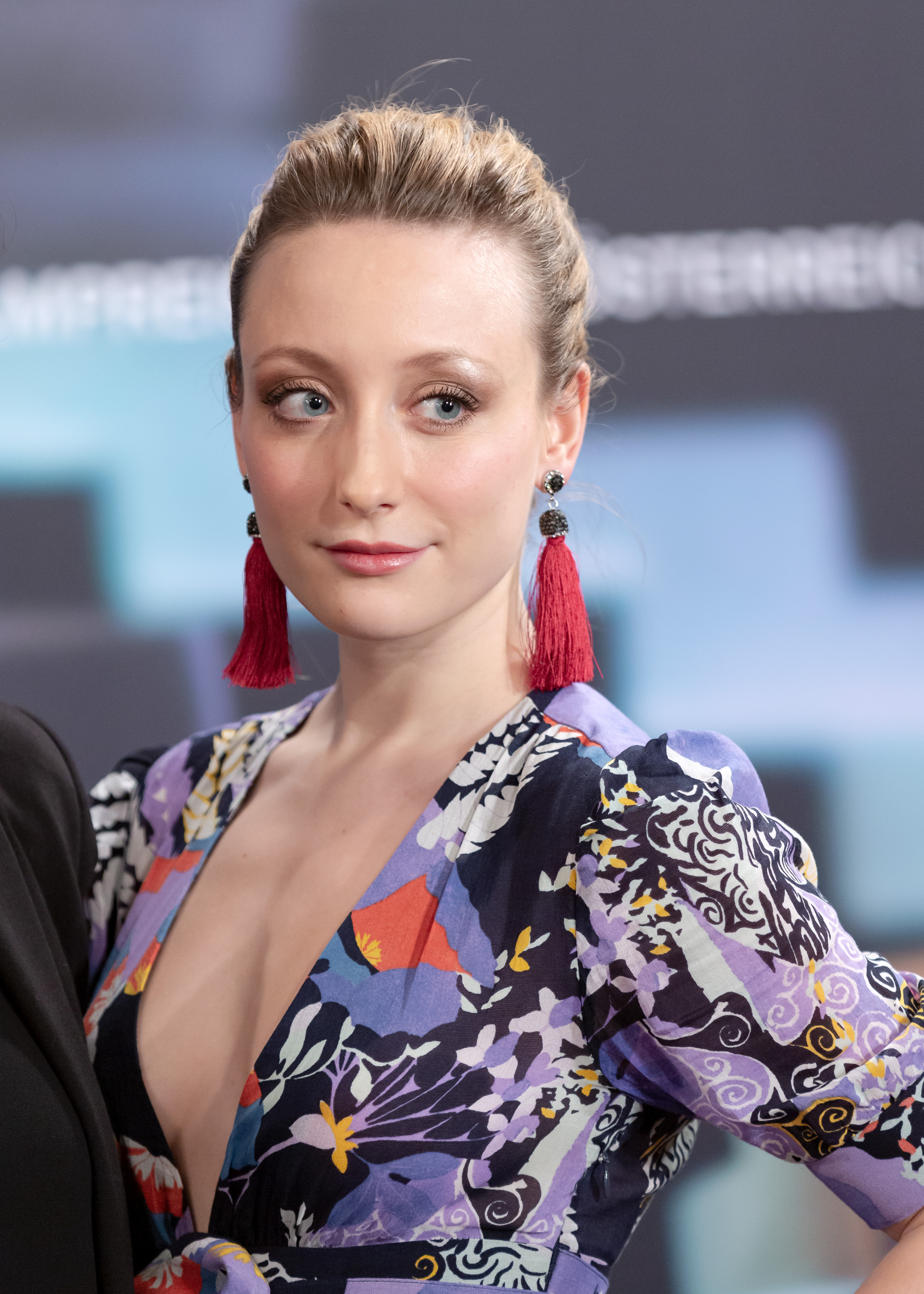 Alina Fritsch, photo call at the Austrian Film Awards 2019 (Rathaus, Vienna,Austria).